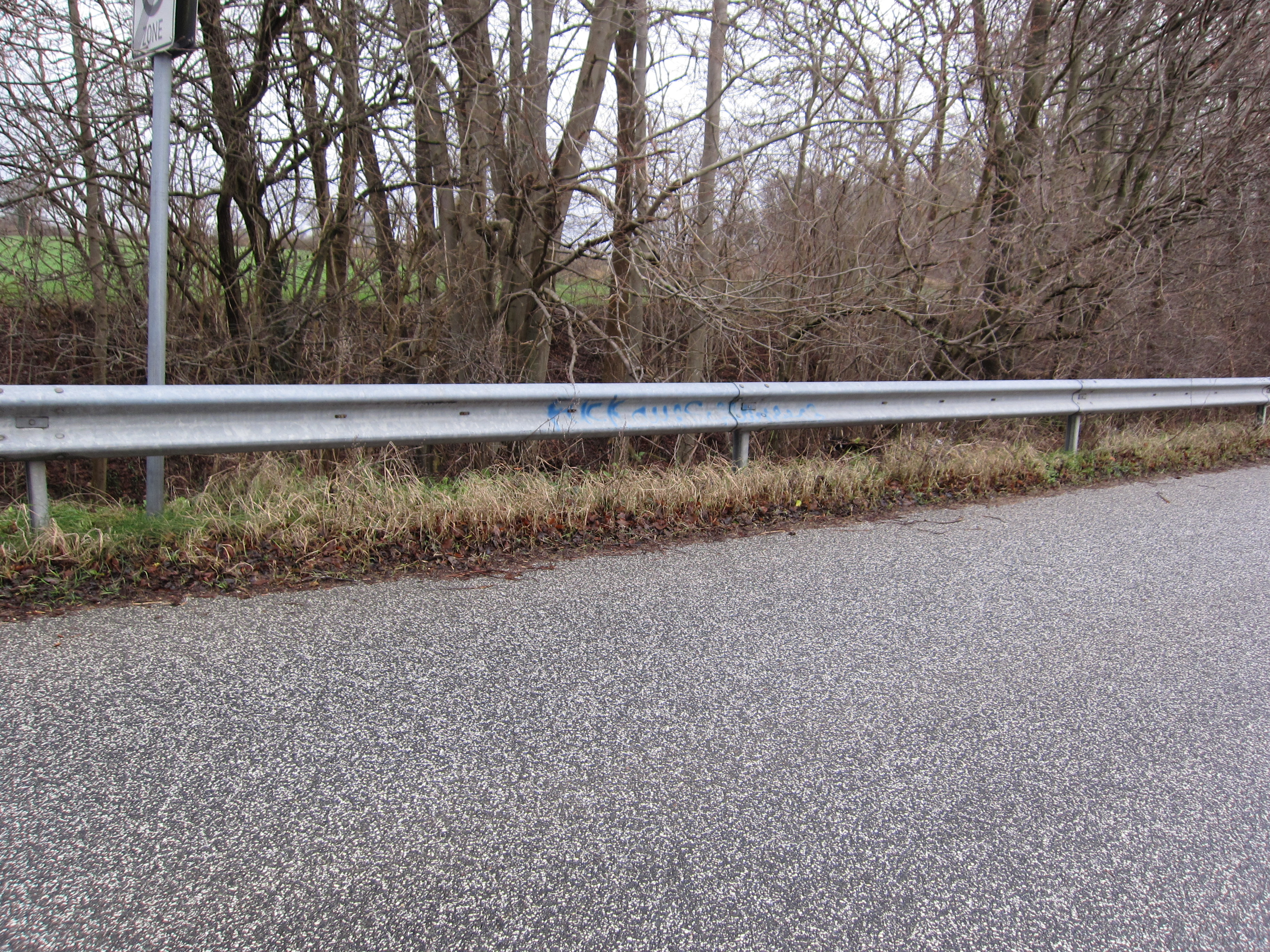 Traffic barrier in Kiel-Schlüsbek